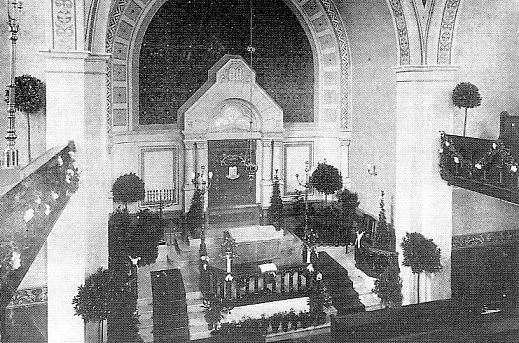 Synagogue of Weinheim (1906-1938) - destroyed by the nazis during Kristall Nacht